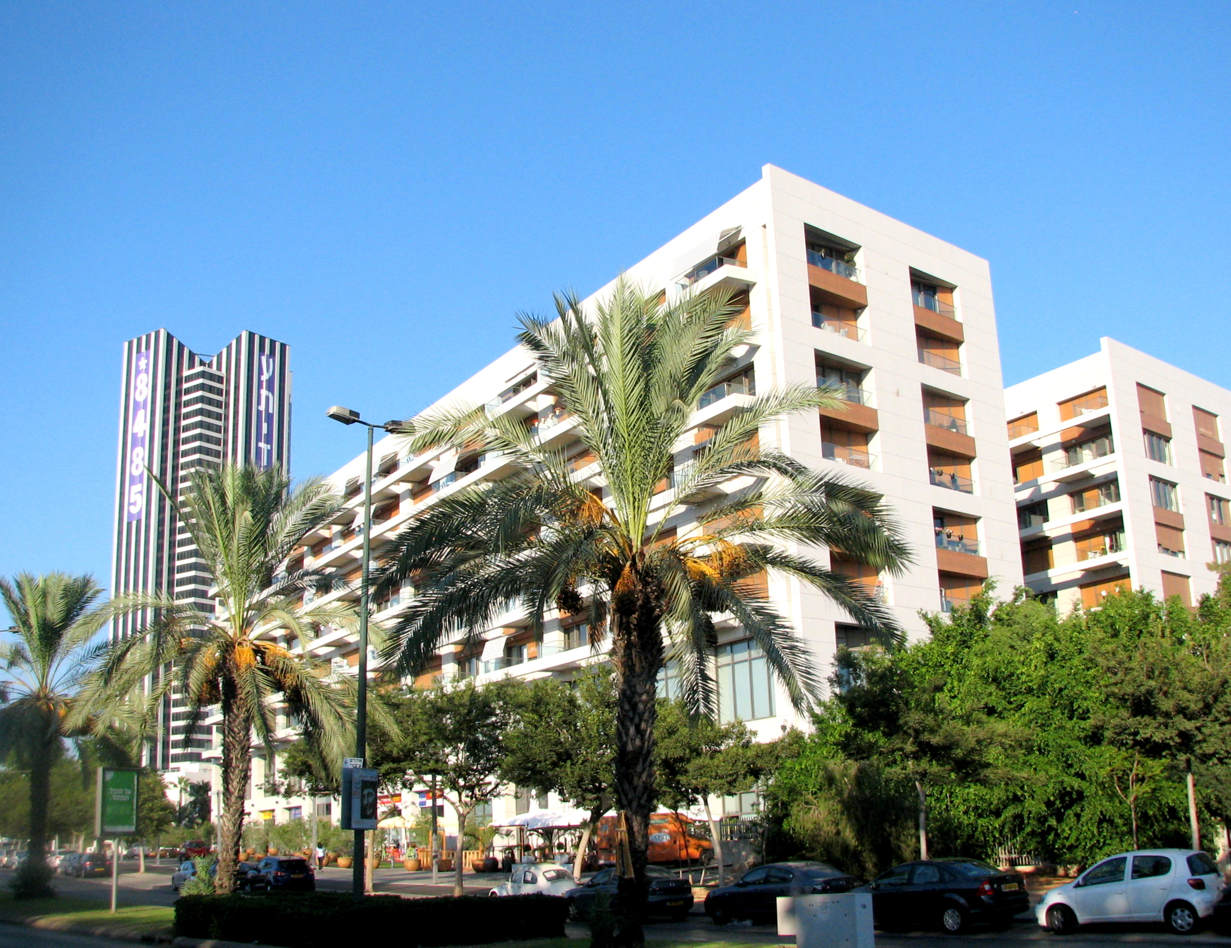 Raoul Wallenberg Street, Ramat HaHayal, Tel Aviv, Israel